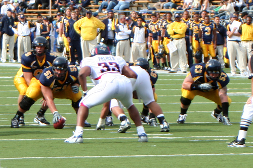 Arizona Wildcats and California Golden Bears at California.